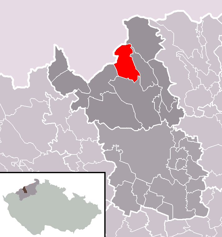 Location of Klíny municipality within Most District and administrative area of Litvínov as a Municipality with Extended Competence.